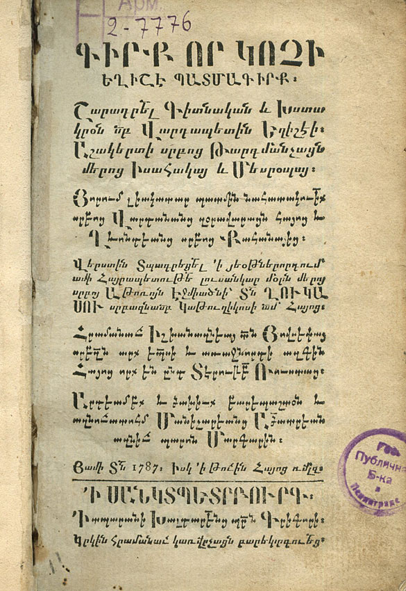 Yeghishe. History ofVardan and theArmenian War